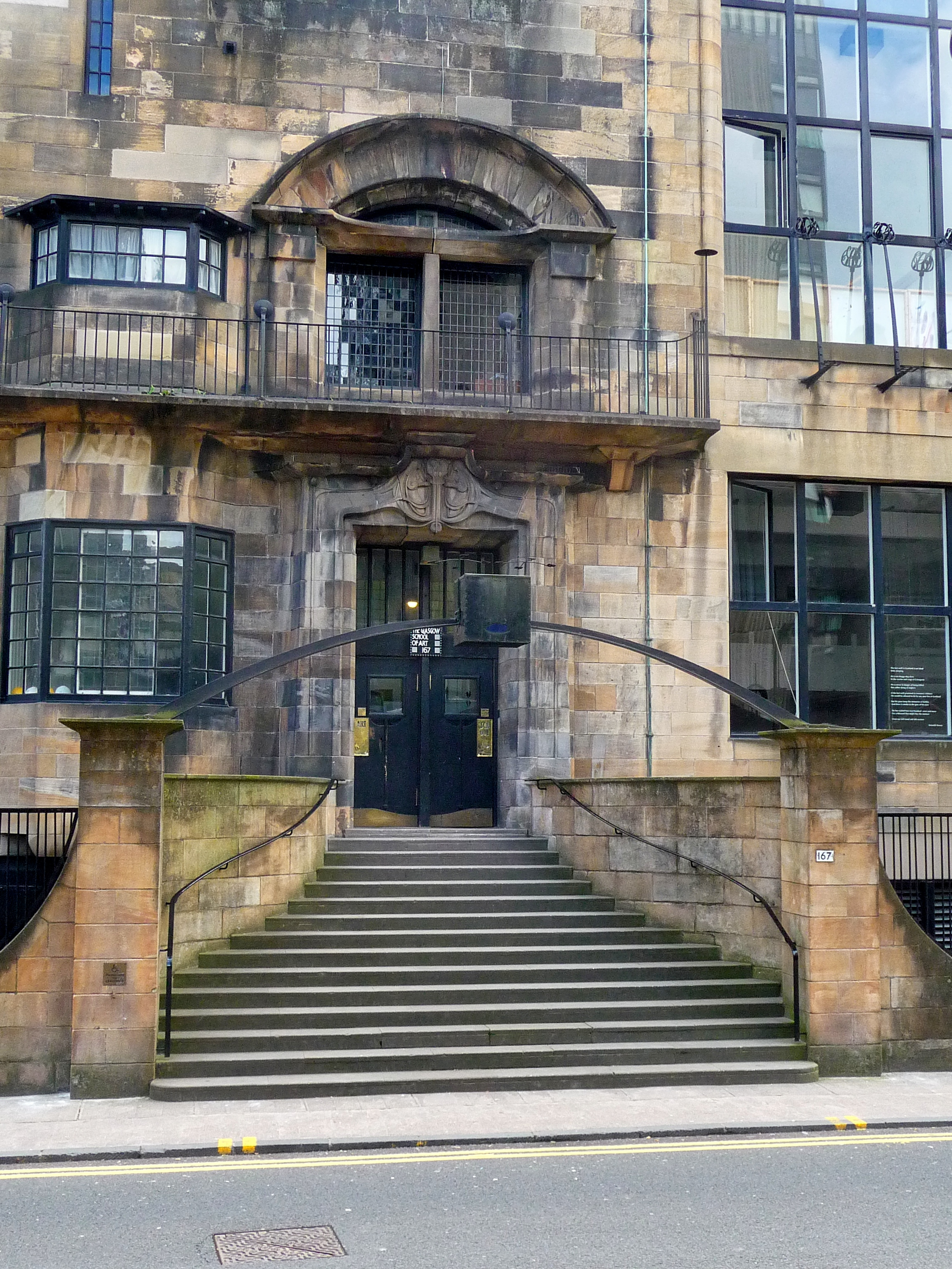 Glasgow School of Art, the Mackintosh Building, built 1897–1909 by Charles Rennie Mackintosh (1868–1928).